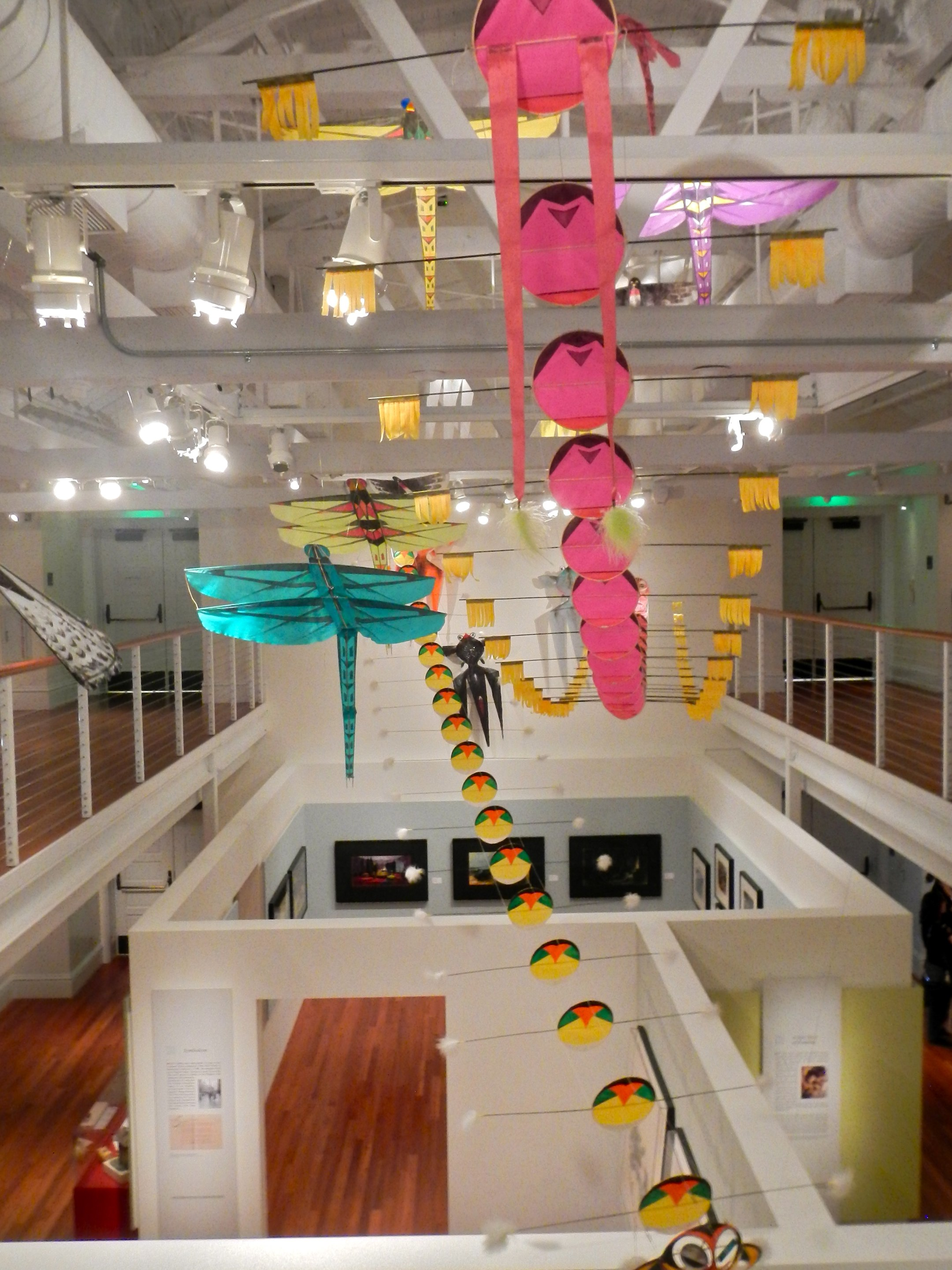 Tyrus Wong Kites on display at the Disney Family Museum, Presidio National Park, SF CA (2013)